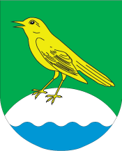 Coat of arms of Rõuge Parish.